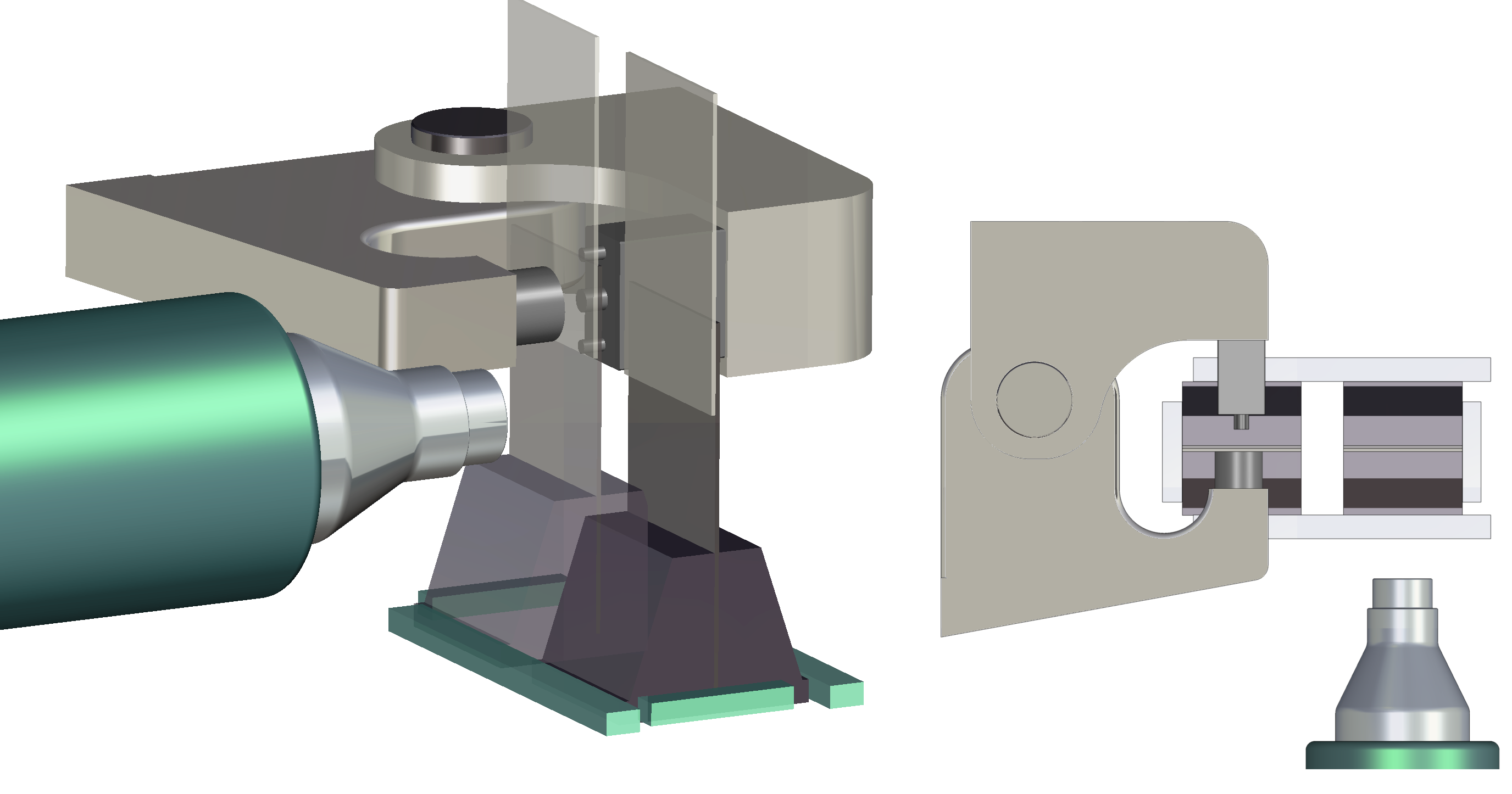 Convection Heating System